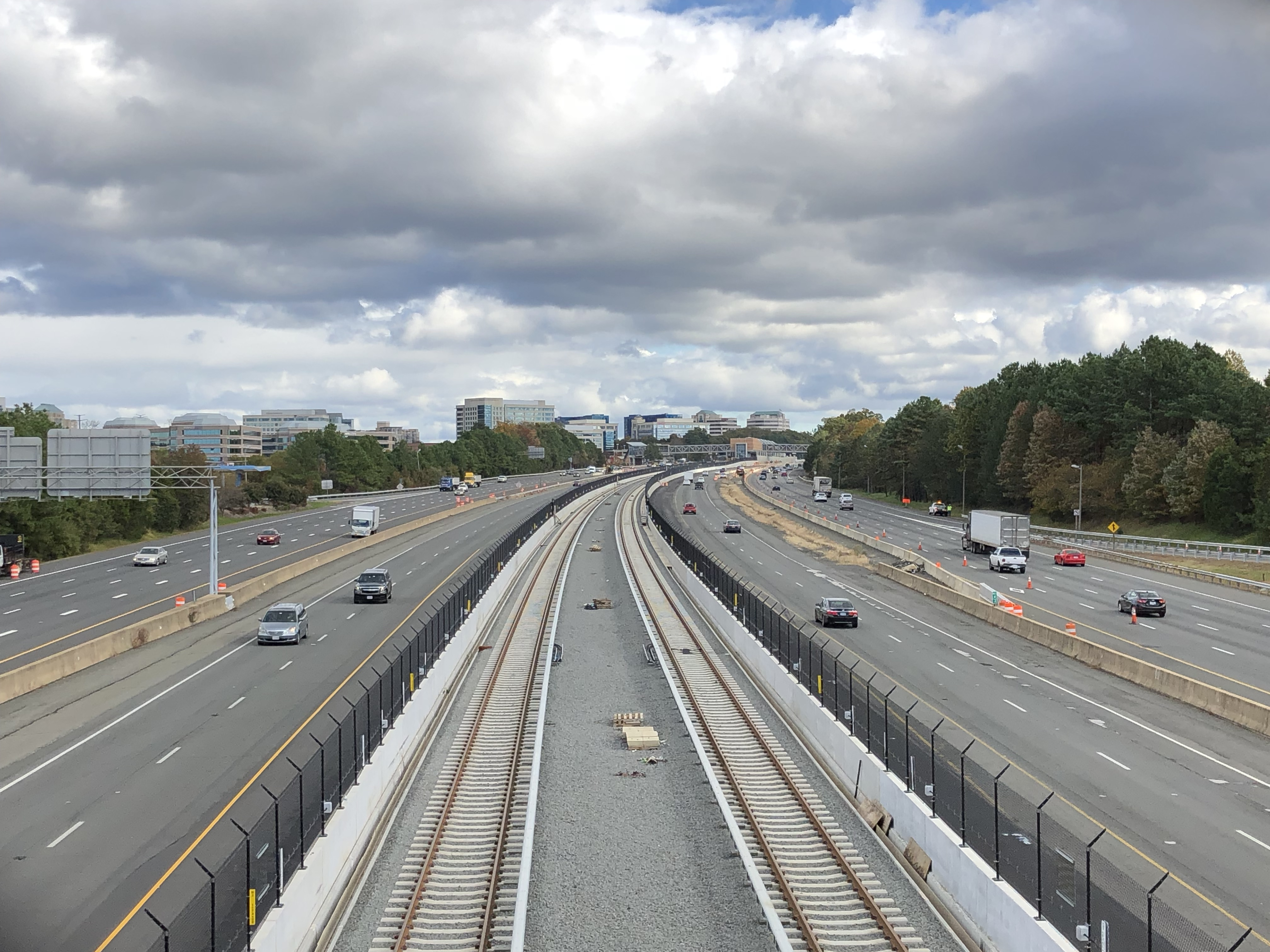 View east along Virginia State Route 267 (Dulles Toll and Access Roads) and the Silver Line of the Washington Metro from the overpass for Virginia State Route 286 (Fairfax County Parkway) in Reston, Fairfax County, Virginia